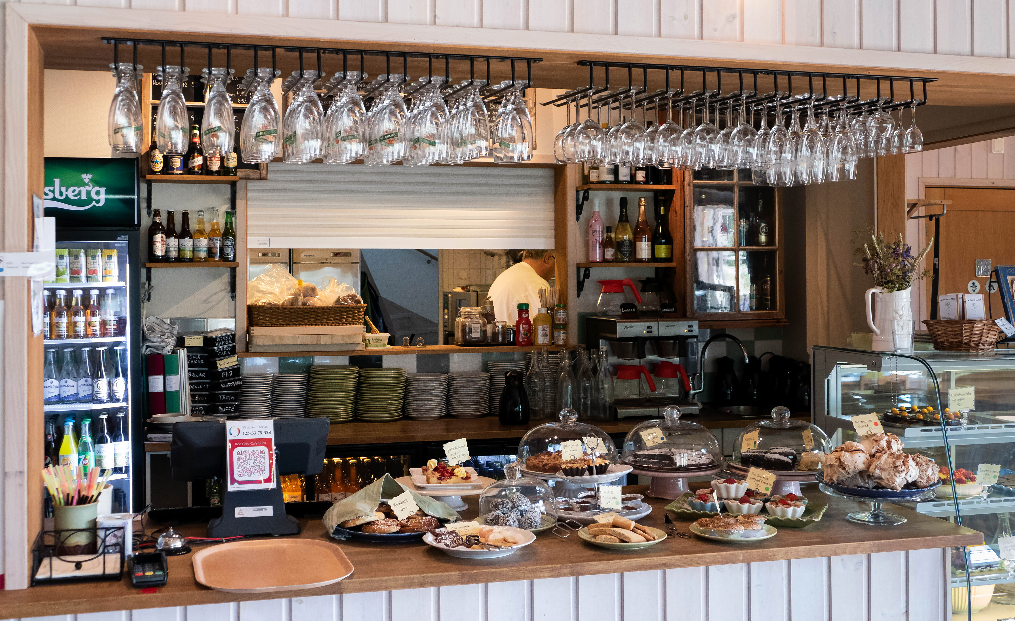 The counter in Röe gård café in Röe, Lysekil Municipality, Sweden.